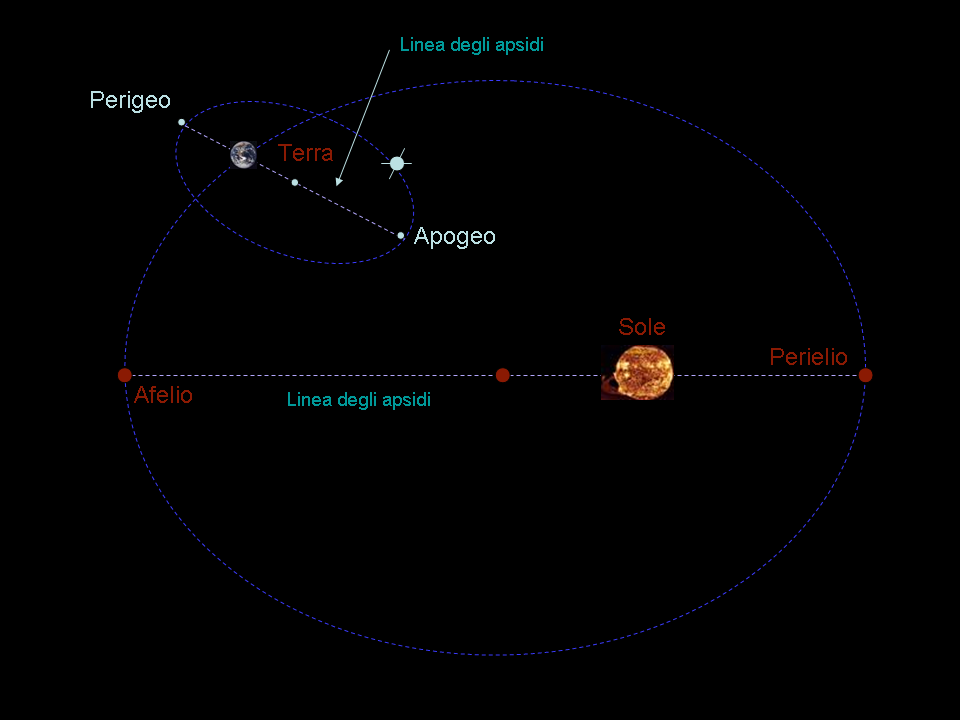 Apsis the Sun and the Earth